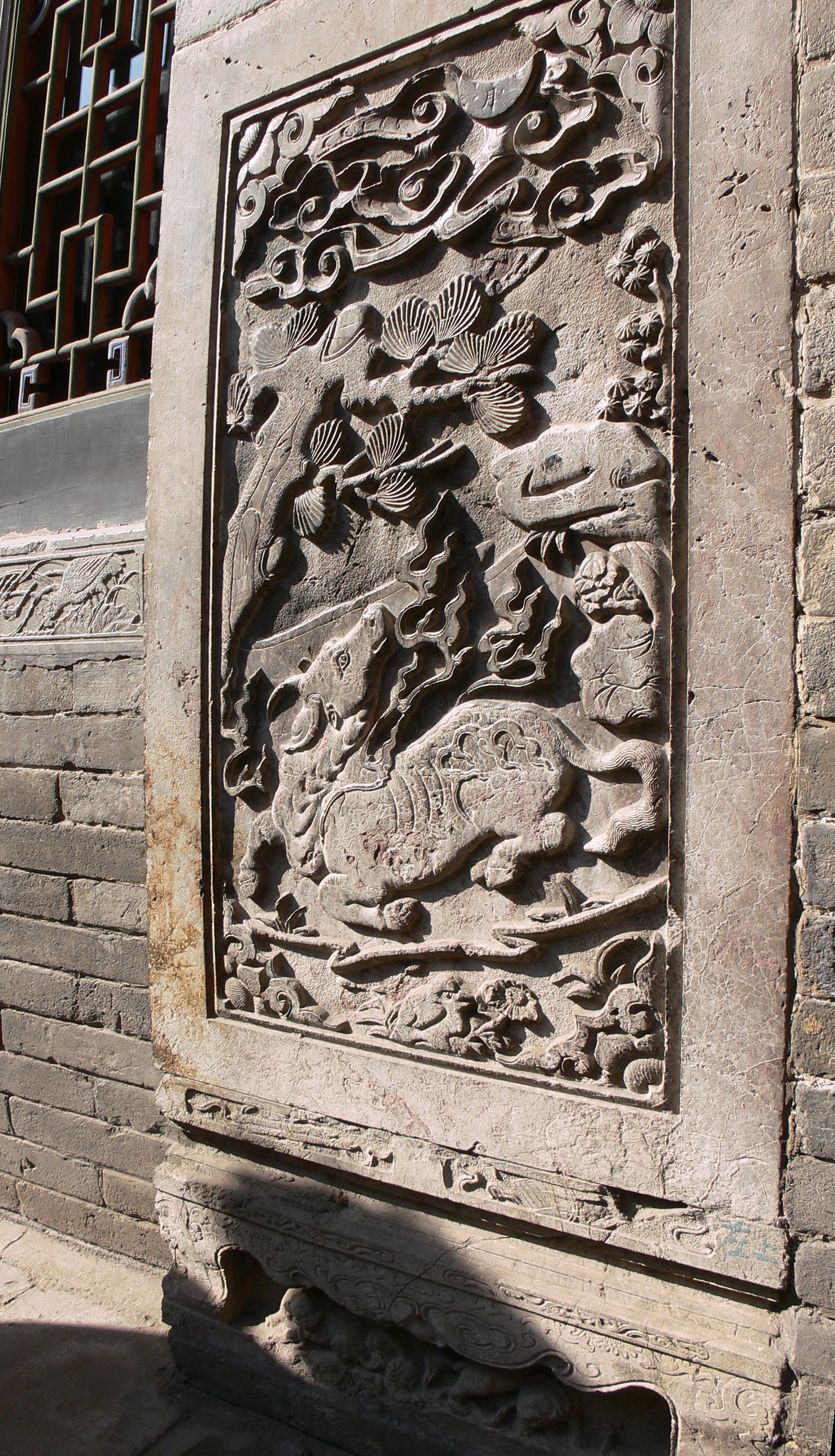 Brick carving decoration of Wang Family Mansion in Lingshi county, Shanxi 中文（中国大陆）: 山西灵石县王家大院的砖雕